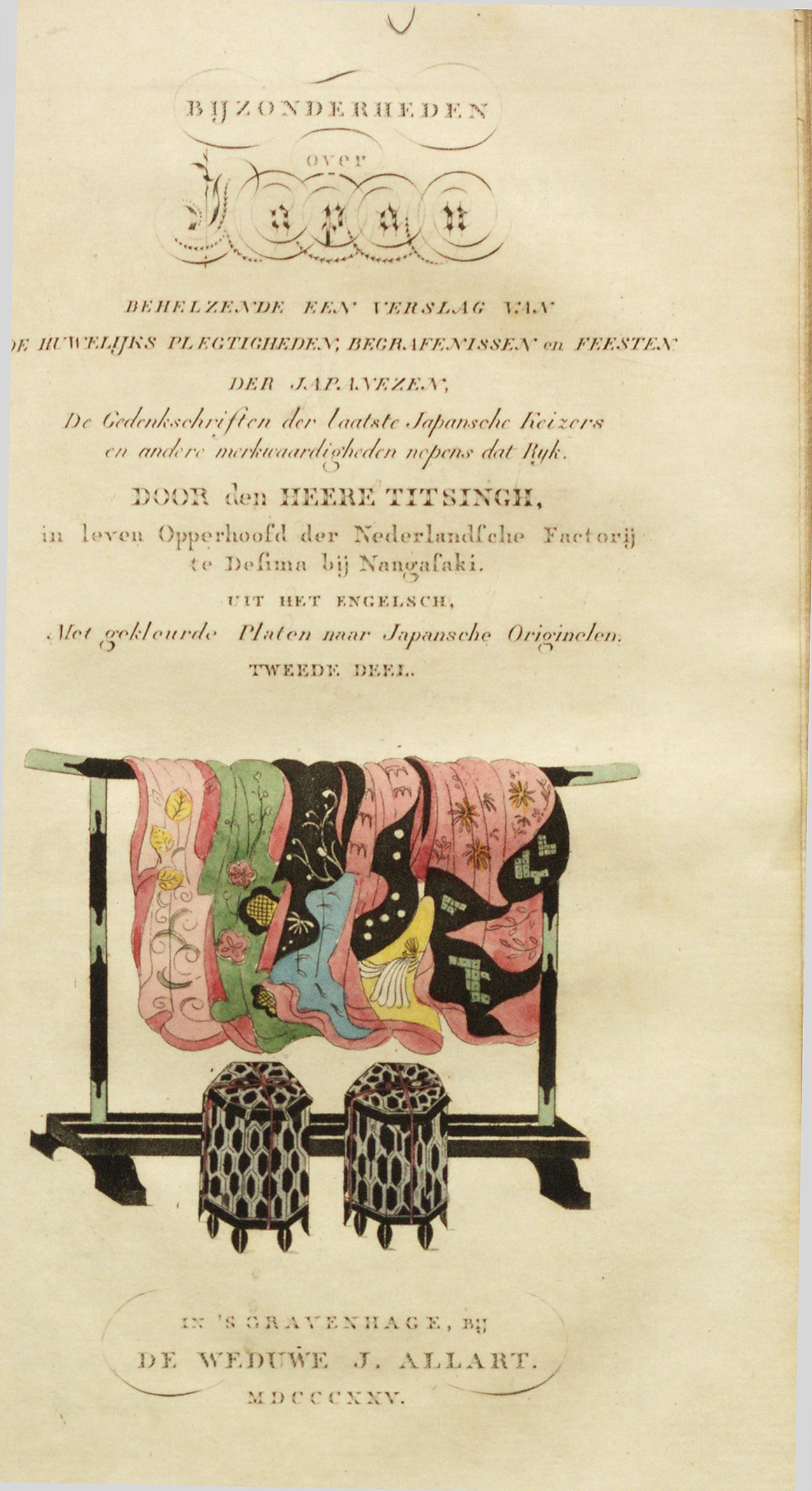 Title page of Part 2 of 'Bijzonderheden over Japan'